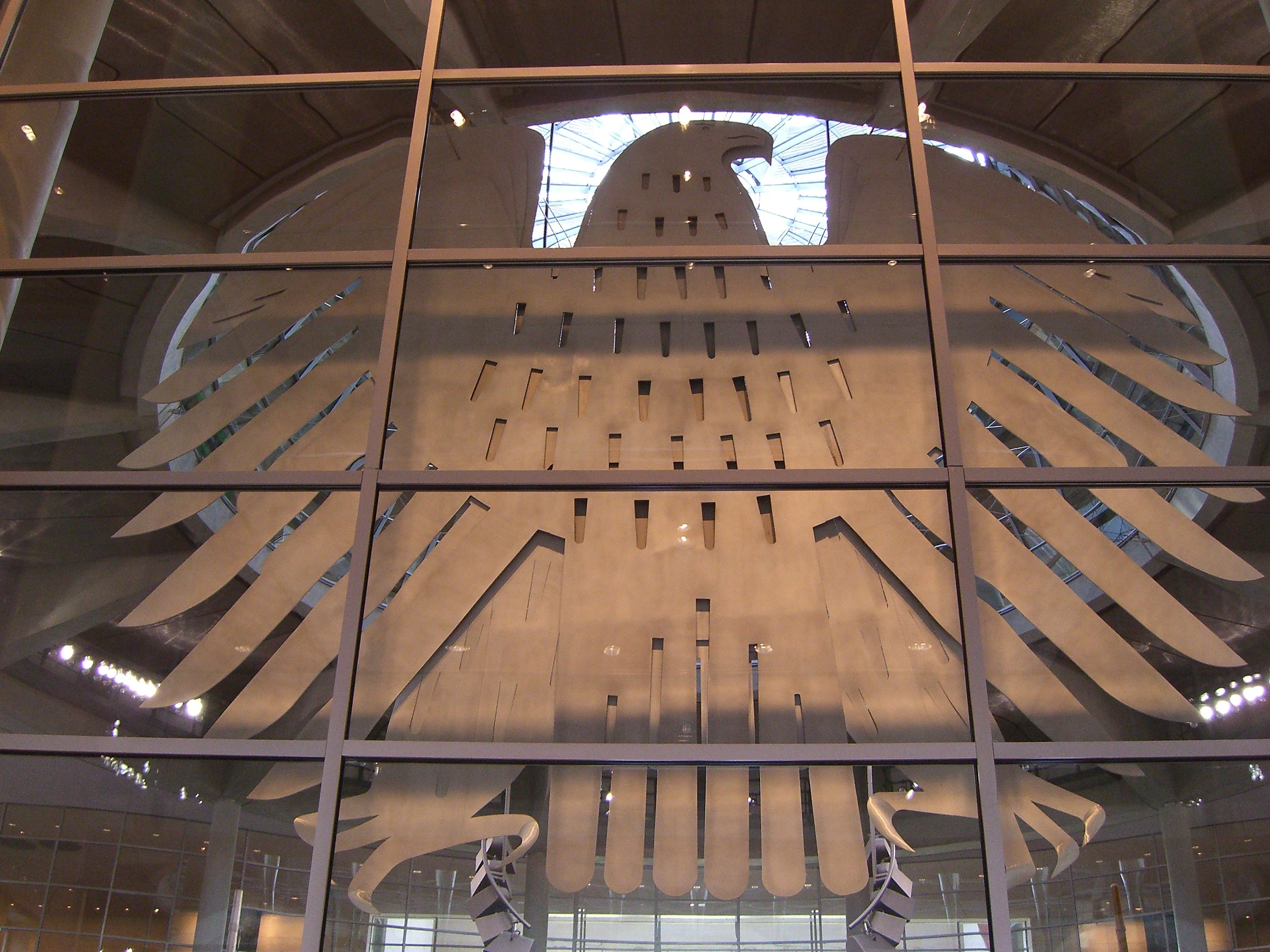 Reverse side of the federal coat of arms of the German Parliament (Bundestagsadler) in the Reichstag building in Berlin. Designed by Norman Foster.